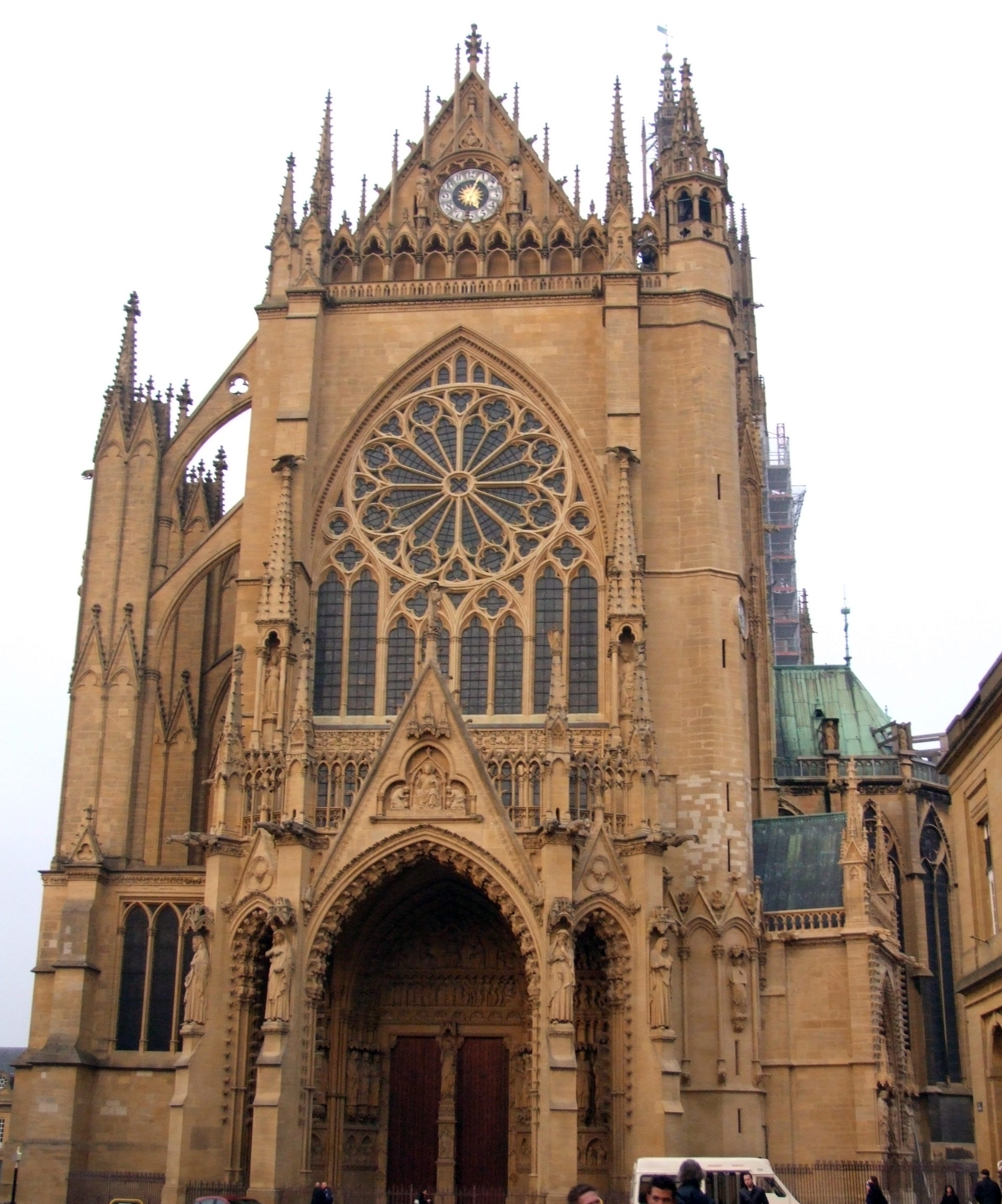 Metz cathedral, Metz, FRANCE